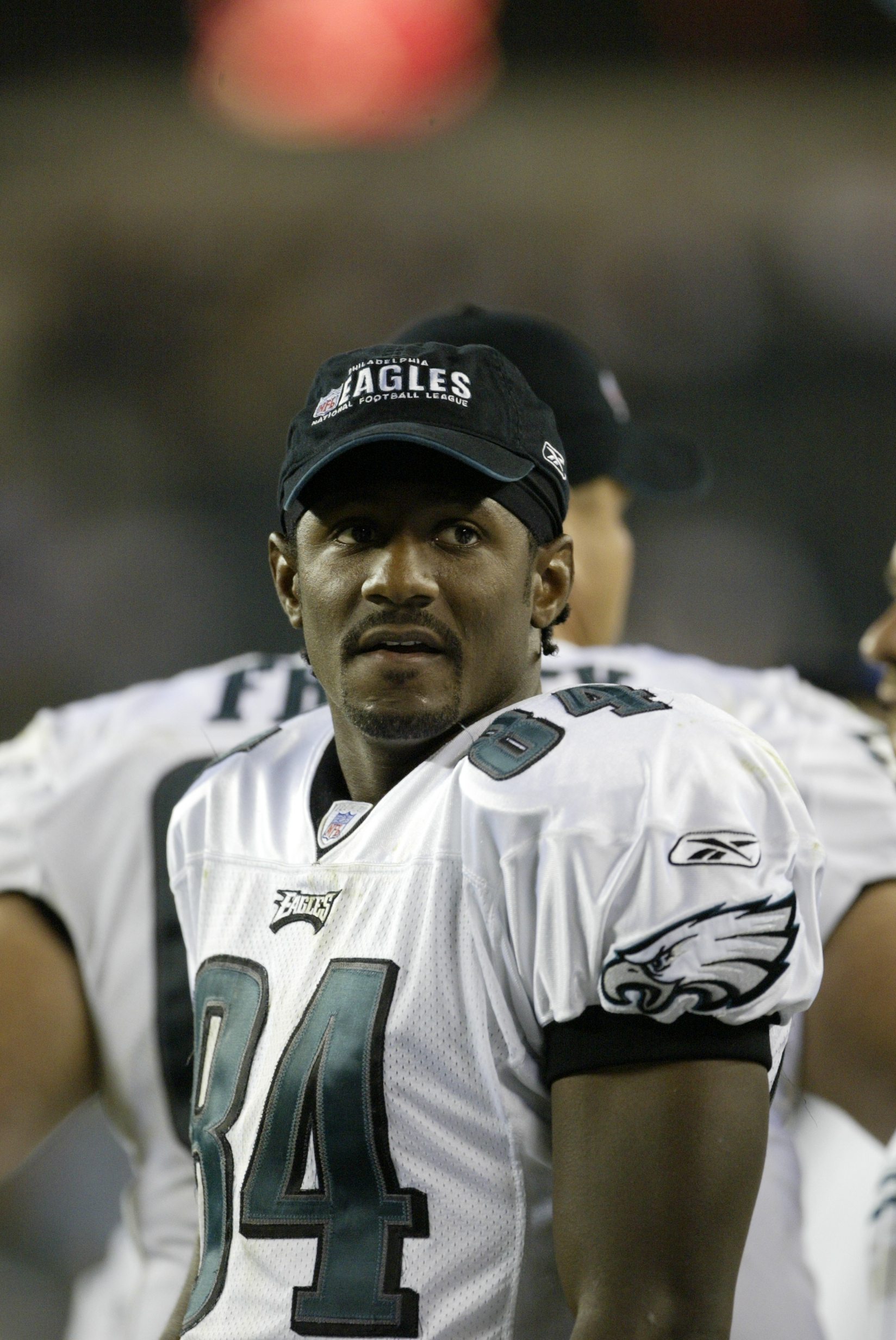 Philadelphia Eagles player Freddie Mitchell in a preseason game against the Pittsburgh Steelers on August 26, 2004.